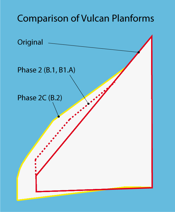 Comparison of Avro Vulcan planforms.